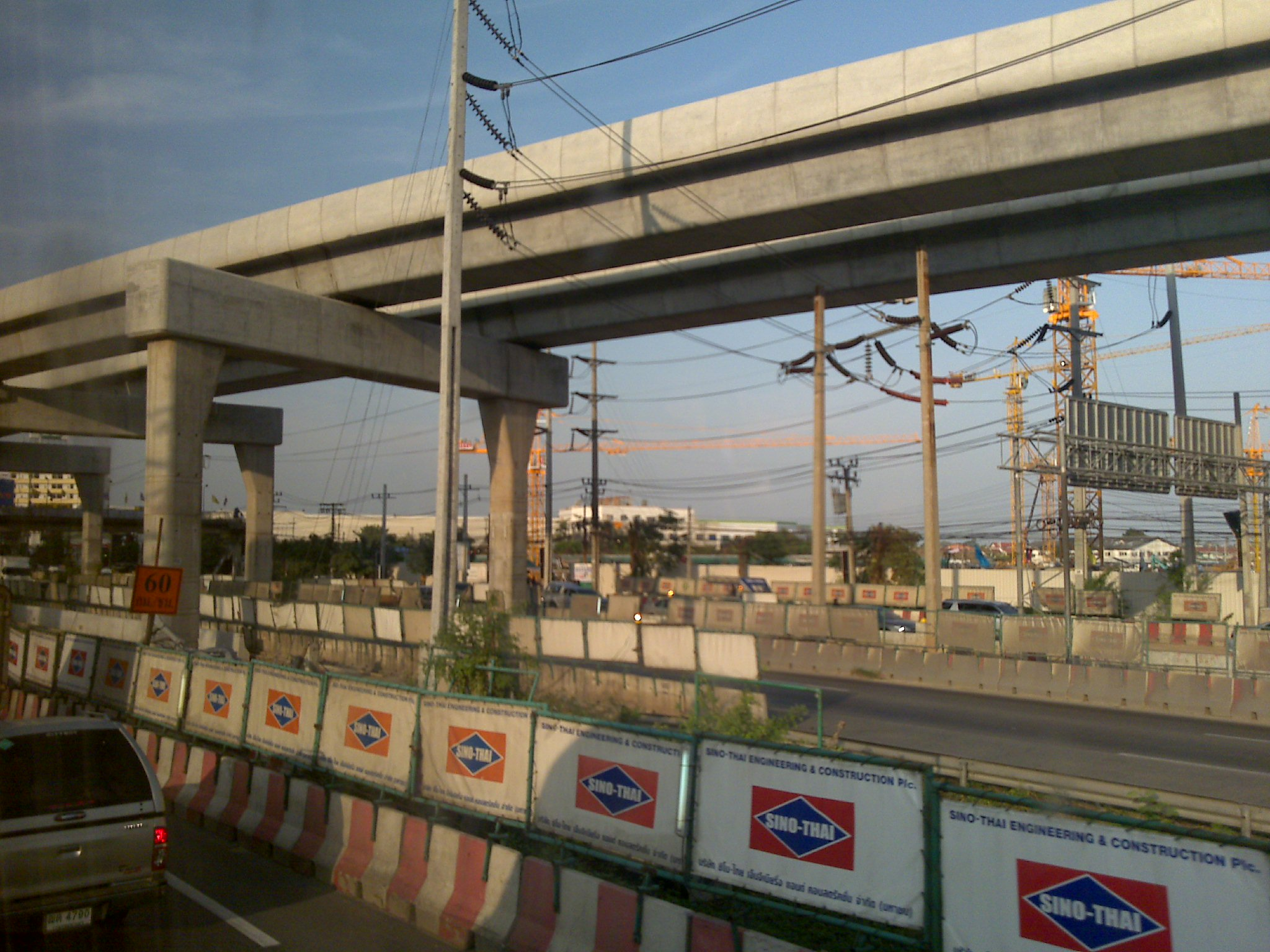 MRT Purple Line under construction on 20 December 2013 in Bangkok